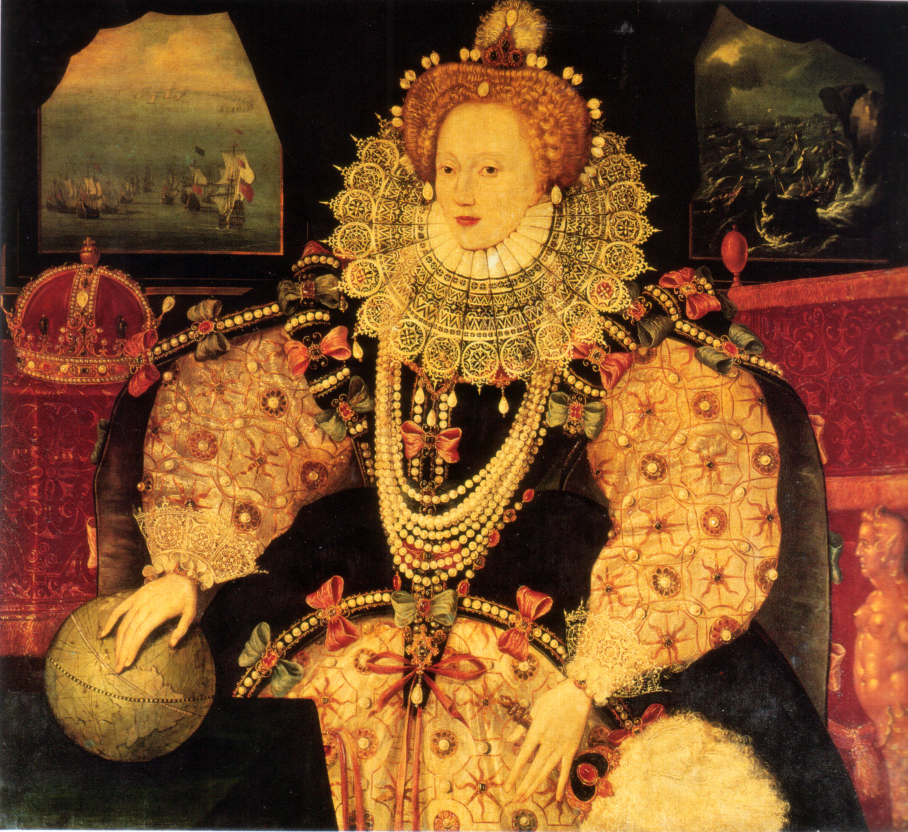 Elizabeth I of England, the Armada Portrait, possibly commissioned by Sir Francis Drake. Oil on panel, 110.5 x 127 cm (43½ x 50 in.). Other versions of the Armada portrait are by different artists.